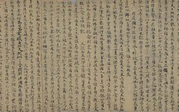 Wang ocheonchukguk jeon